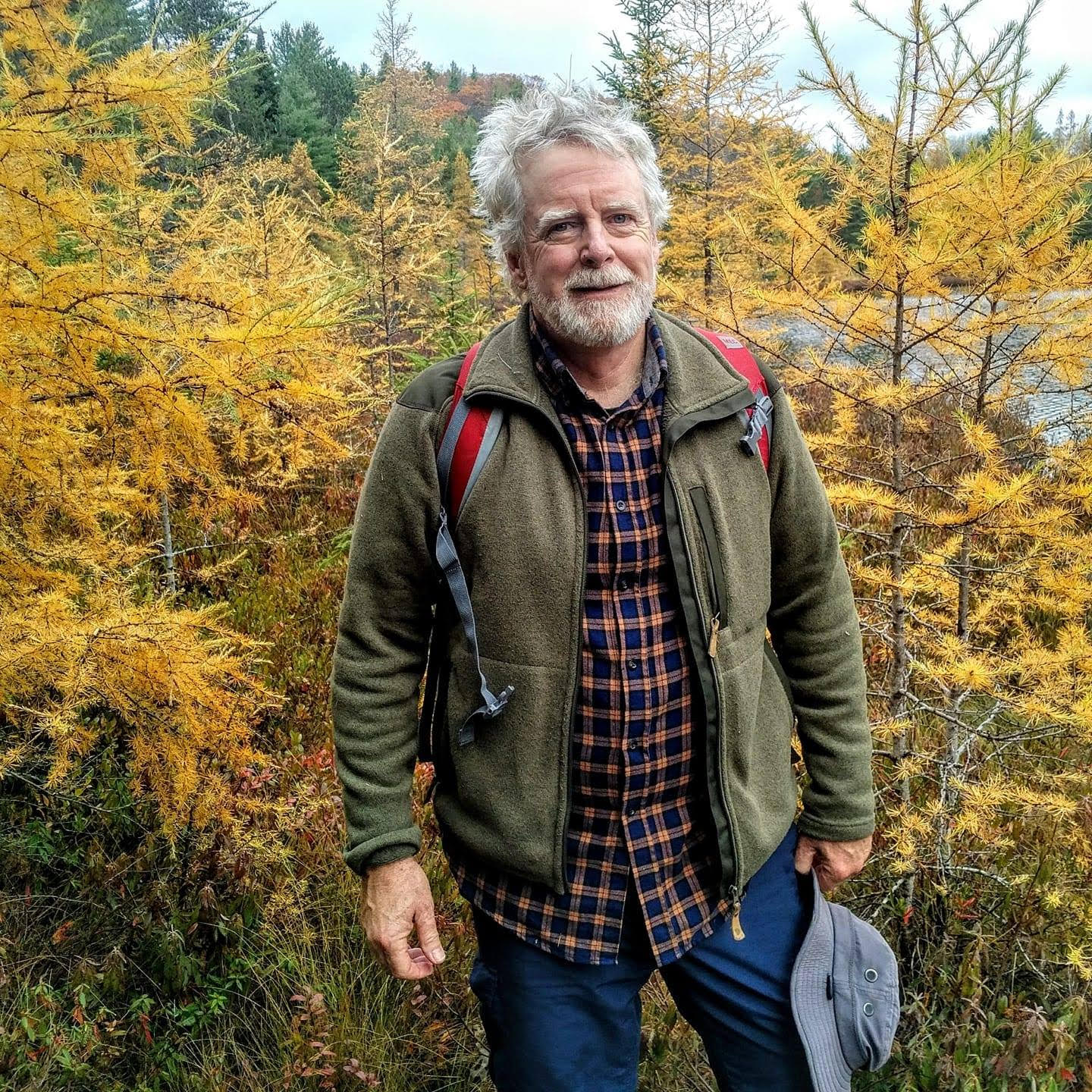 A portrait of James Cullingham